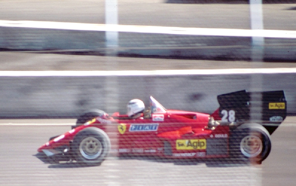 Rene Arnoux, #28 Ferrari placed 2nd. His Formula 1 career spanned 1978 to 1989, 149 starts in 164 races, 7 wins, 22 podium finishes, and 18 poles. The car shown here is the Ferrari 126C which was the replacement for the 312T. It was Ferrari's first attempt at a turbo car with its 1500cc V6. It suffered from huge turbo lag and then an acceleration blast that unbalanced the car and made handling difficult.